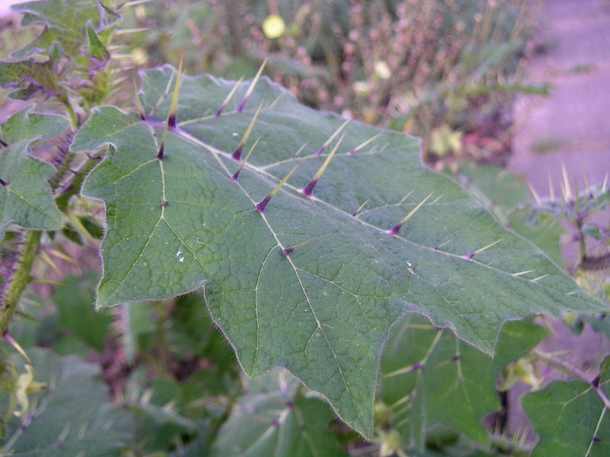 Spiny leaf of Solanum myriacanthum at Botanical Garden Krefeld, Germany.